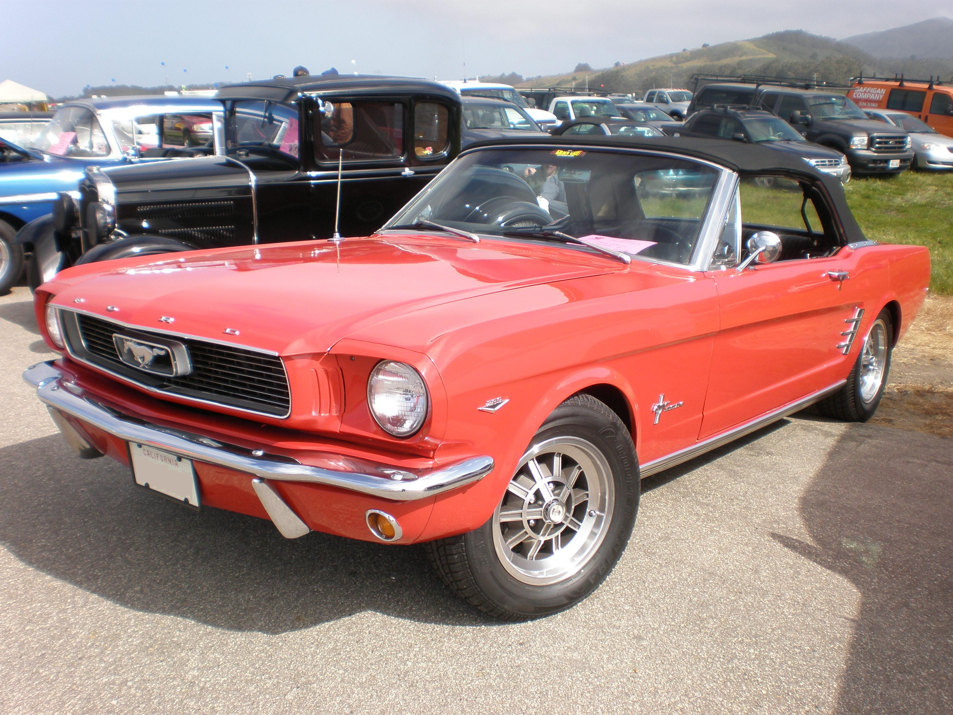 A 1966 Ford Mustang convertible at the Pacific Coast Dream Machines 2009 vehicle show at the Half Moon Bay Airport in Half Moon Bay, California.